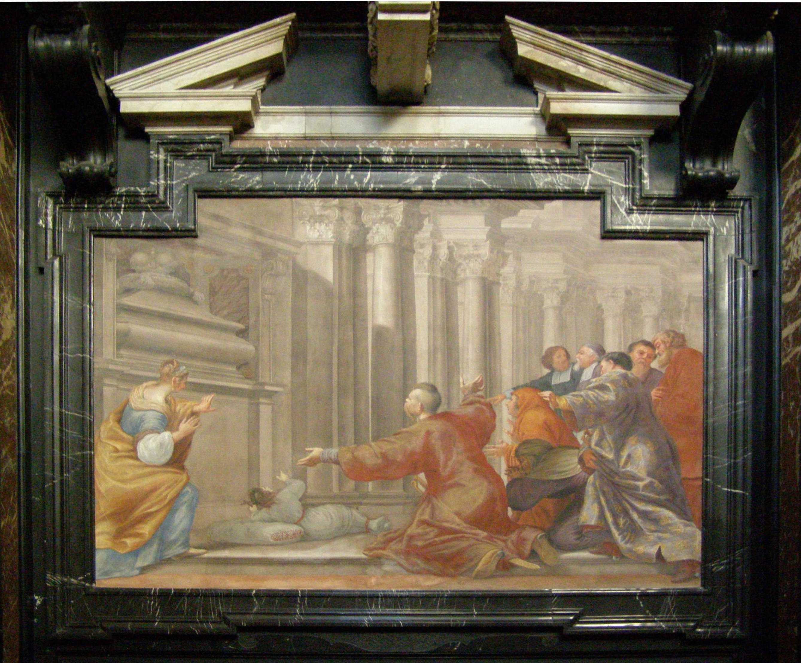 Michelangelo Palloni in the chapel of St. Casimir in Vilnius Cathedrallabel QS:Len,"Michelangelo Palloni in the chapel of St. Casimir in Vilnius Cathedral" label QS:Lpl,"Michelangelo Palloniego w kaplicy św. Kazimierza w katedrze wileńskiej"